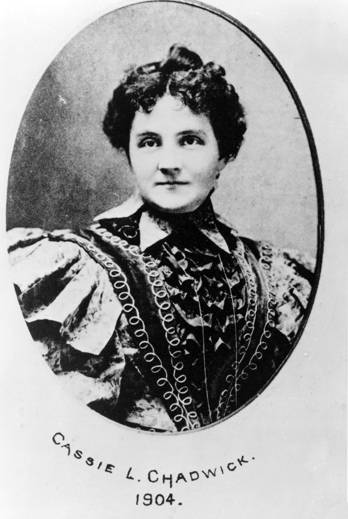 Portrait of Cassie L. Chadwick, 1904.